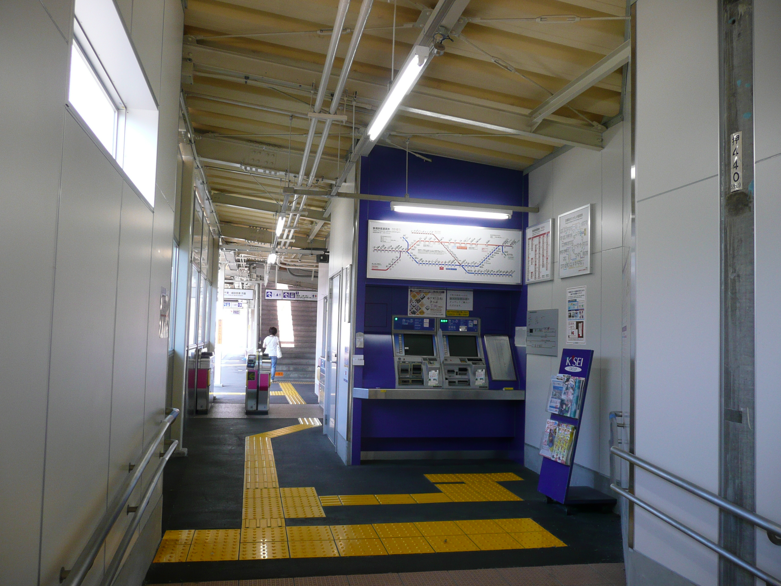 Ticket Gate of Kaijin Station